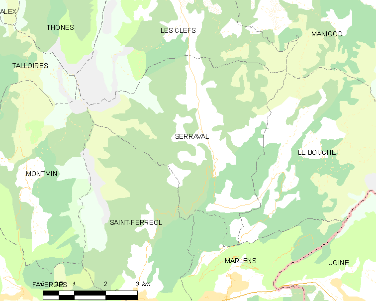 Map of French municipality Serraval